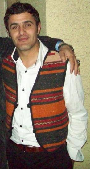 Chanteur chaoui Ishem Boumaraf